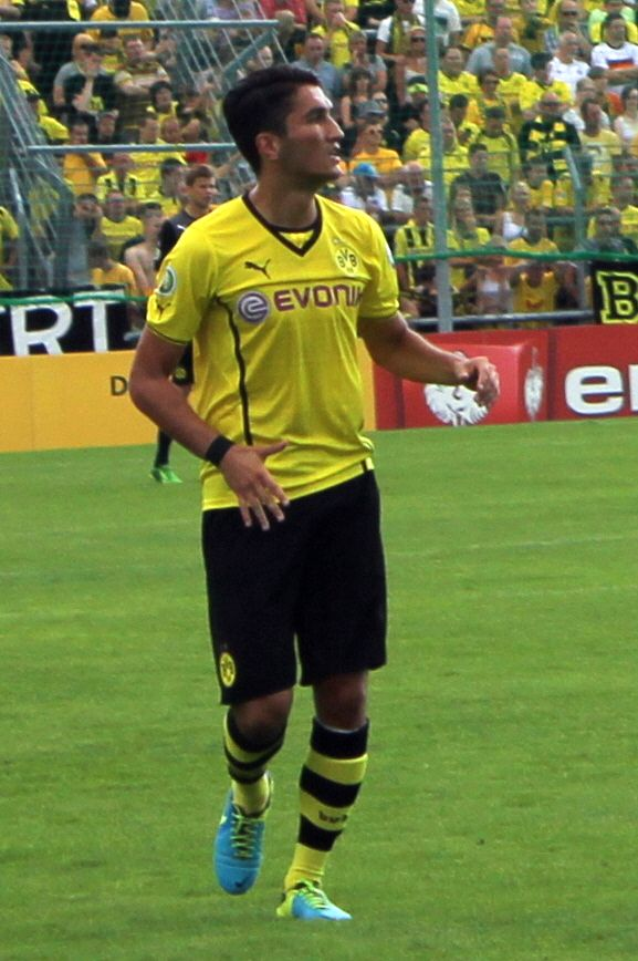 Nuri Shahin 2013 in Wilhelmshaven